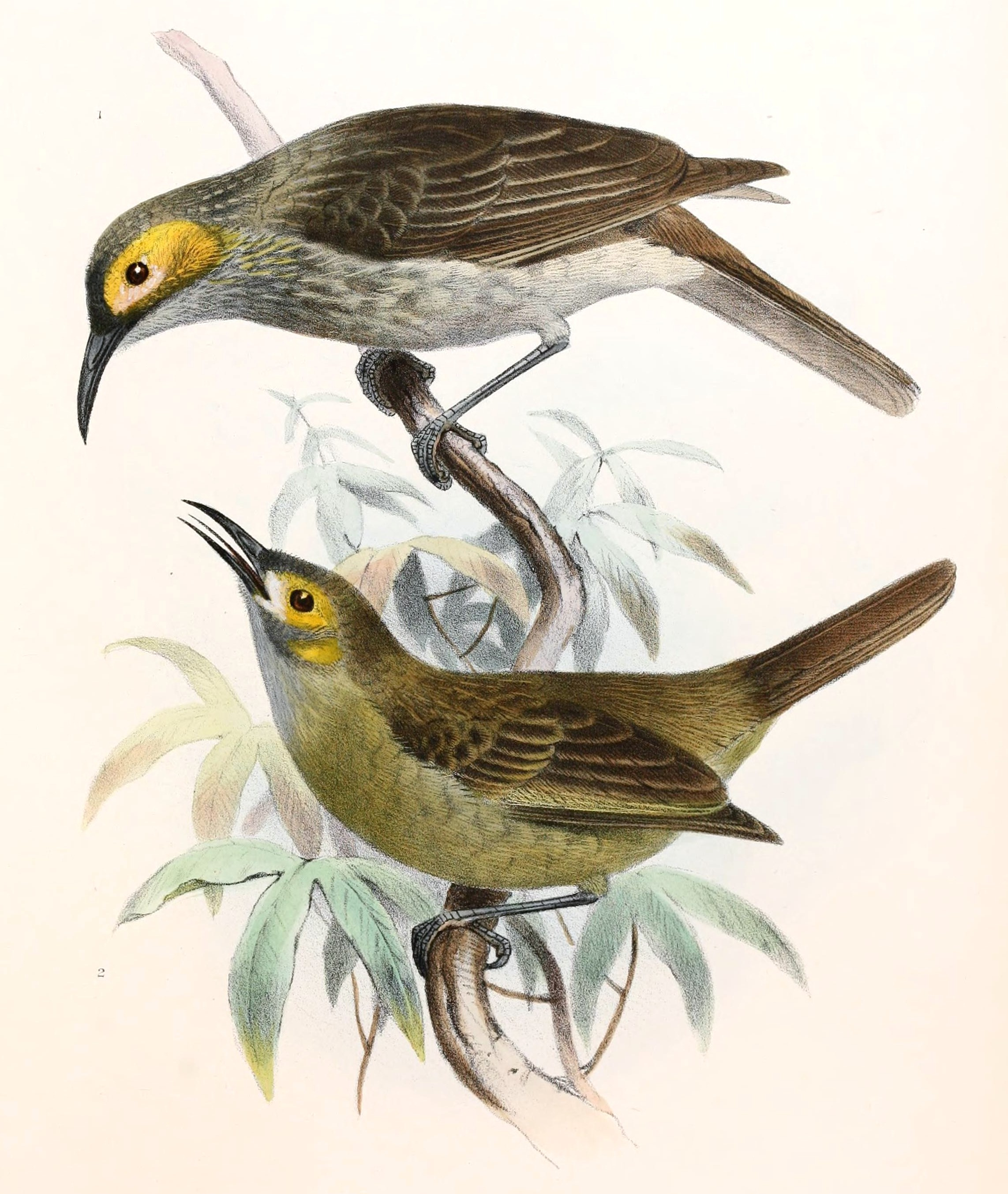 « Ptilotis provocator » = Xanthotis provocator (Kadavu Honeyeater)